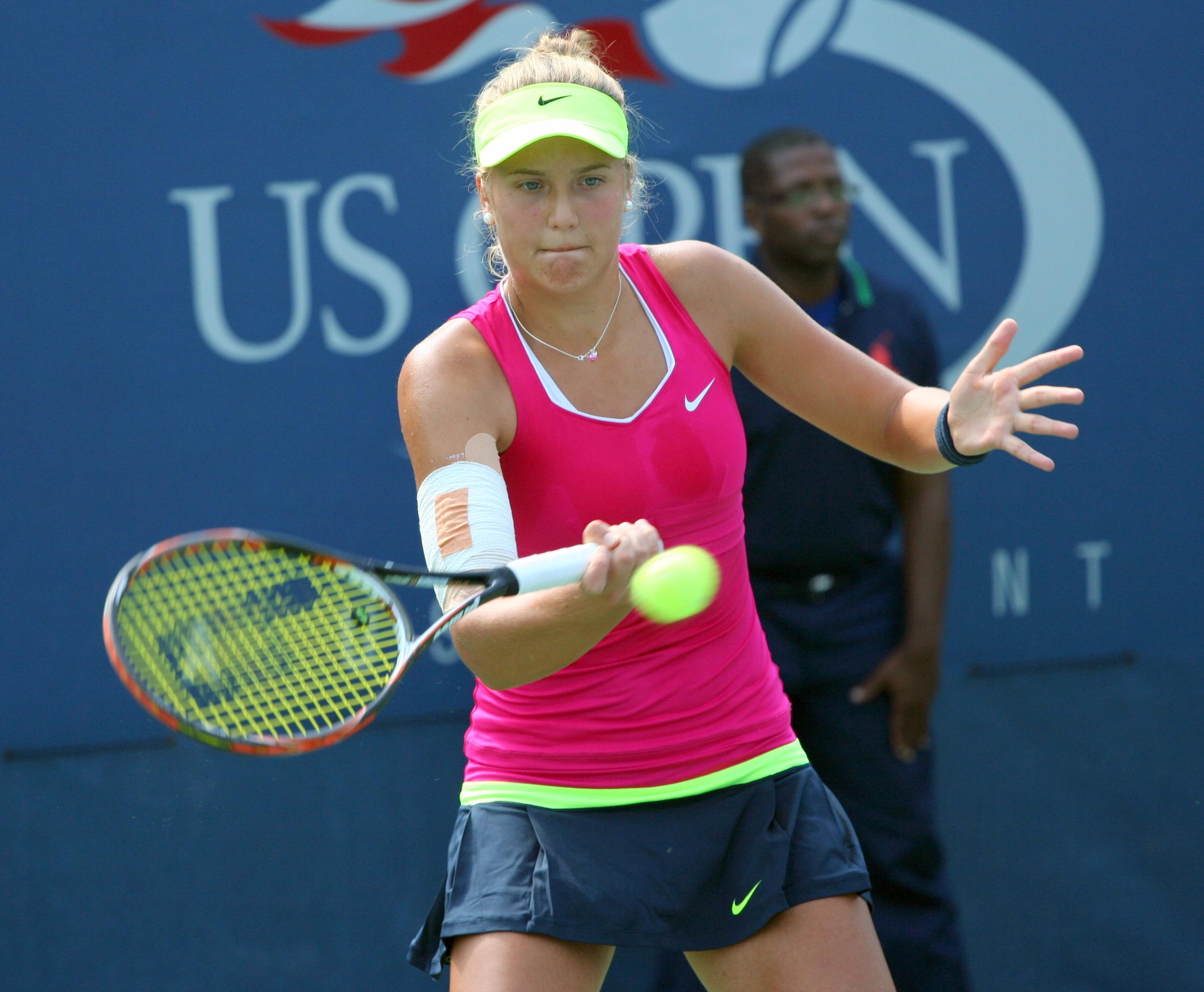 U.S. Open Juniors Friday, Sept. 7, 2012